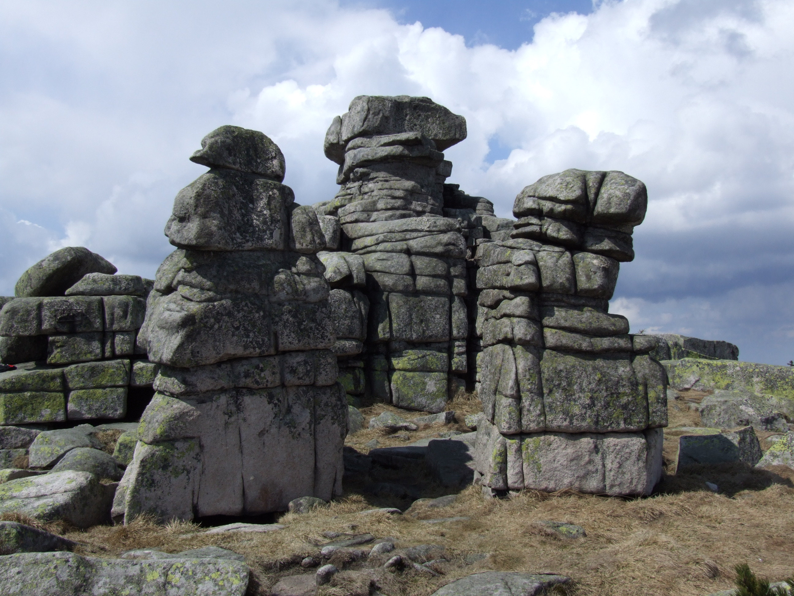 Rocks Śląskie Kamienie / Dívči Kameny in Riesengebirge (Karkonosze).The rocks are up to 8 m high